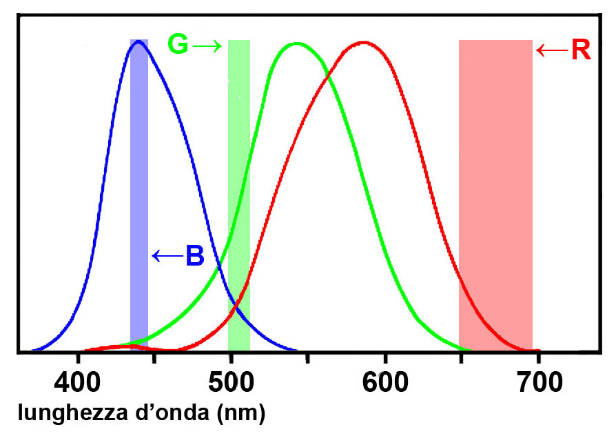 R, G, B: best primaries for additive color synthesys Curves red, green and blue: spectral sensitivity curves of the three types of human photoreceptors responsible for color vision